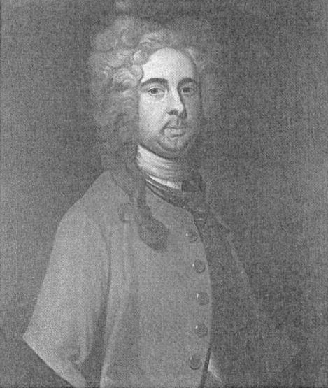 painting of Captain Charles Calvert, Governor of Maryland.